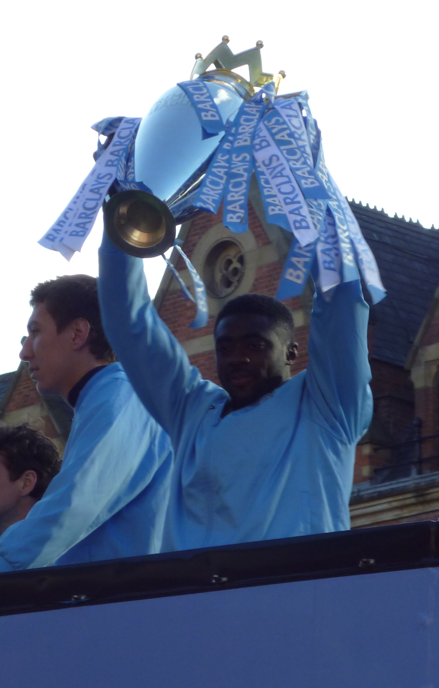 Kolo Touré with the Premier League trophy on Manchester City's victory parade, 14 May 2012